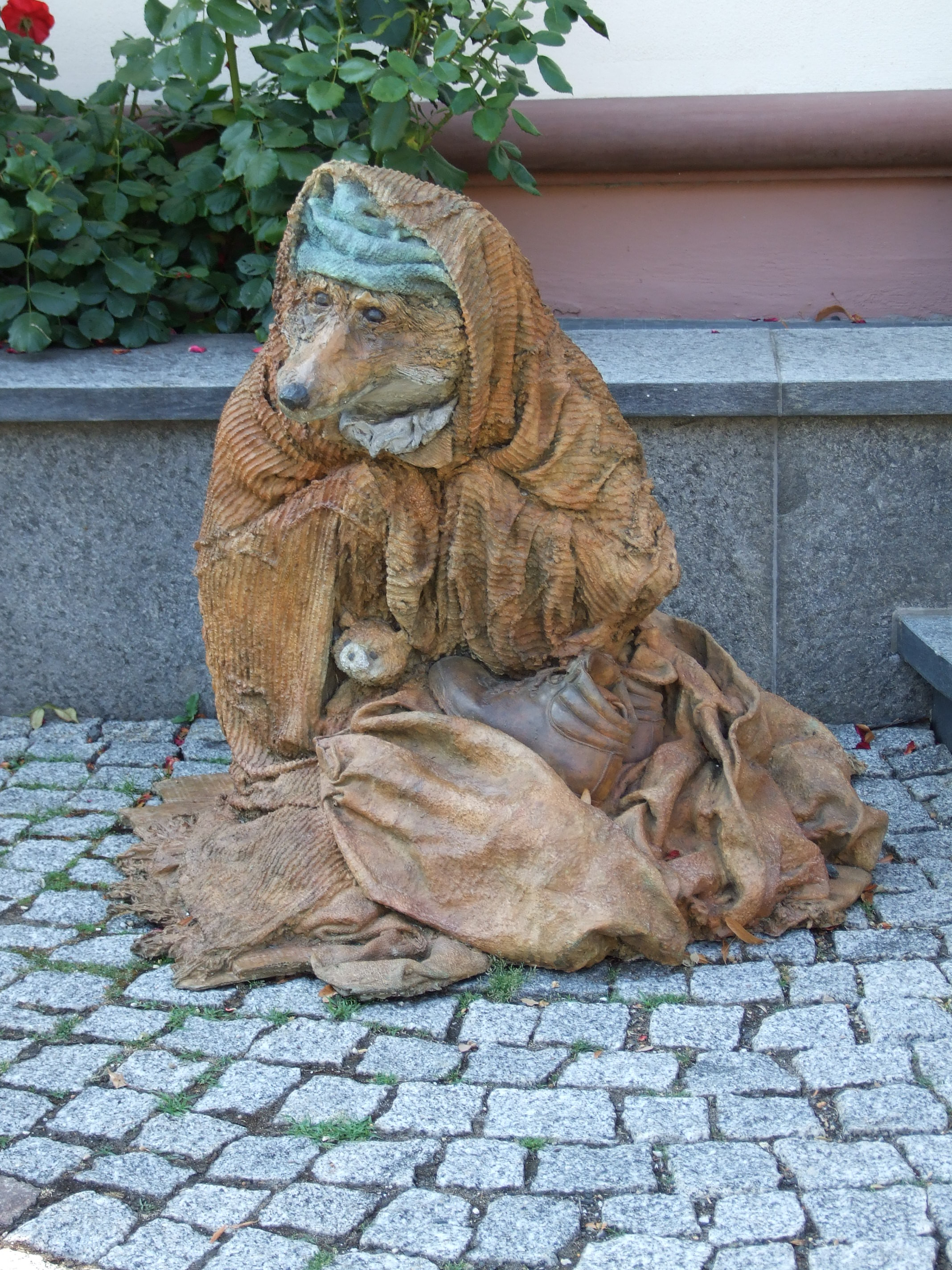 "Rag and Bone With Blanket" from Laura Ford at "blickachsen 7", 2009, yard of "Sinclair Haus" of Bad Homburg, Hesse, Germany